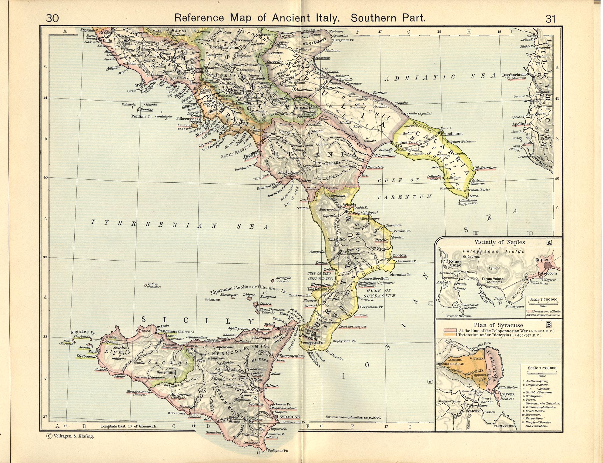 Reference Map of Ancient Italy, Southern Part [1] Historical Atlas by William R. Shepherd, 1911. Courtesy of the University of Texas Libraries, The University of Texas at Austin. From The Historical Atlas by William R. Shepherd, 1911 edition